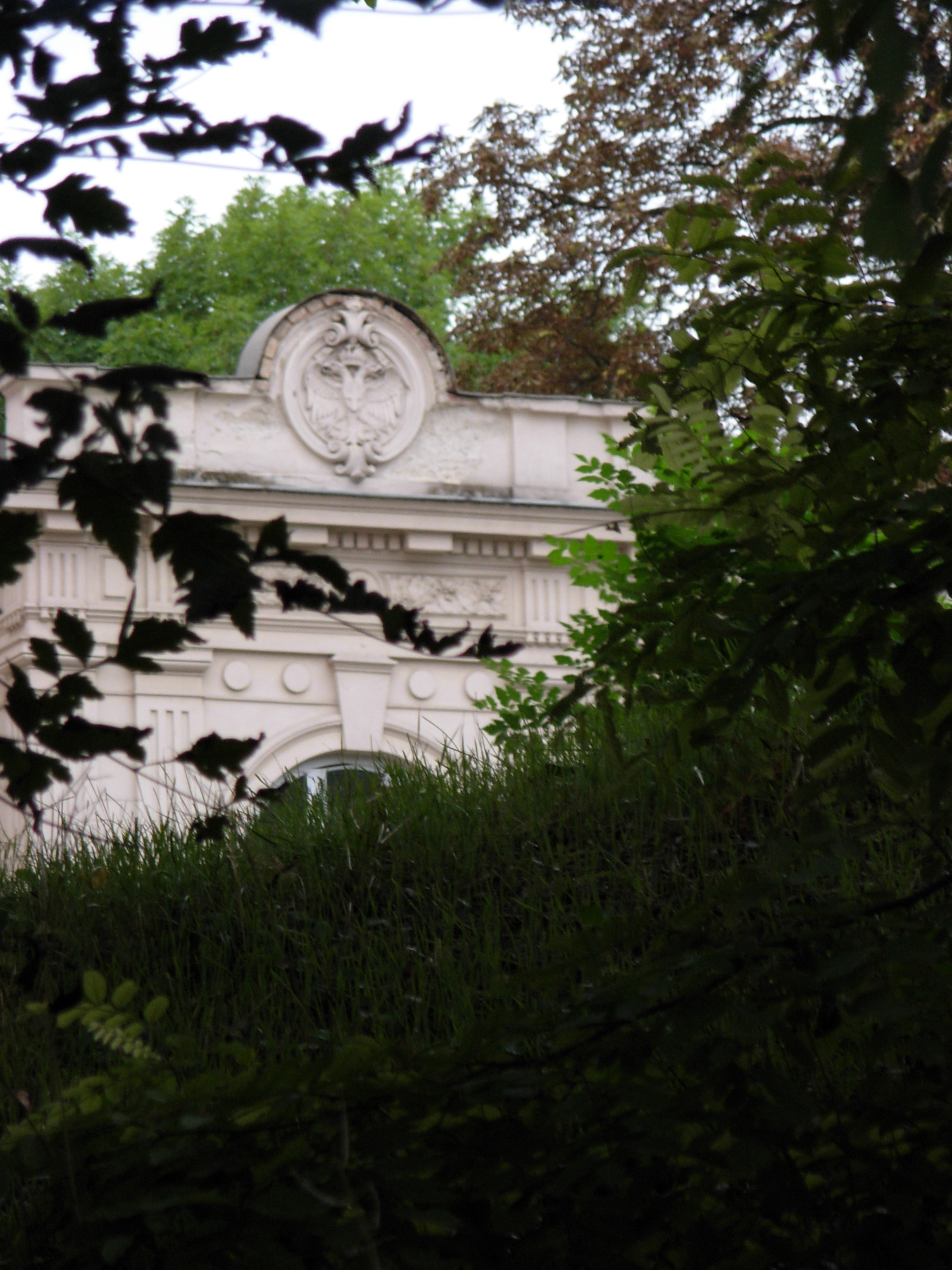 Detail of Villa Hohe Warte, Vienna